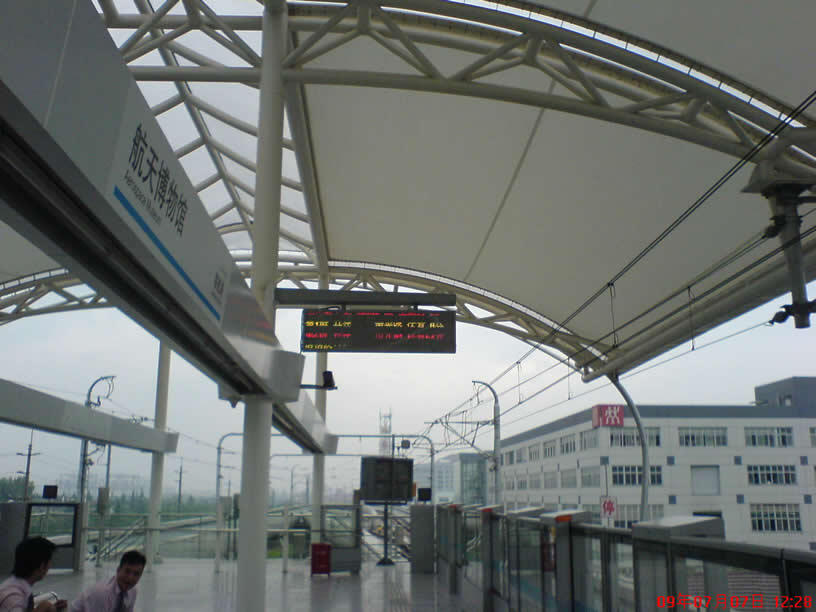 Shendu Highway Station platform of Shanghai Metro Line 8 (formerly Aerospace Museum station).